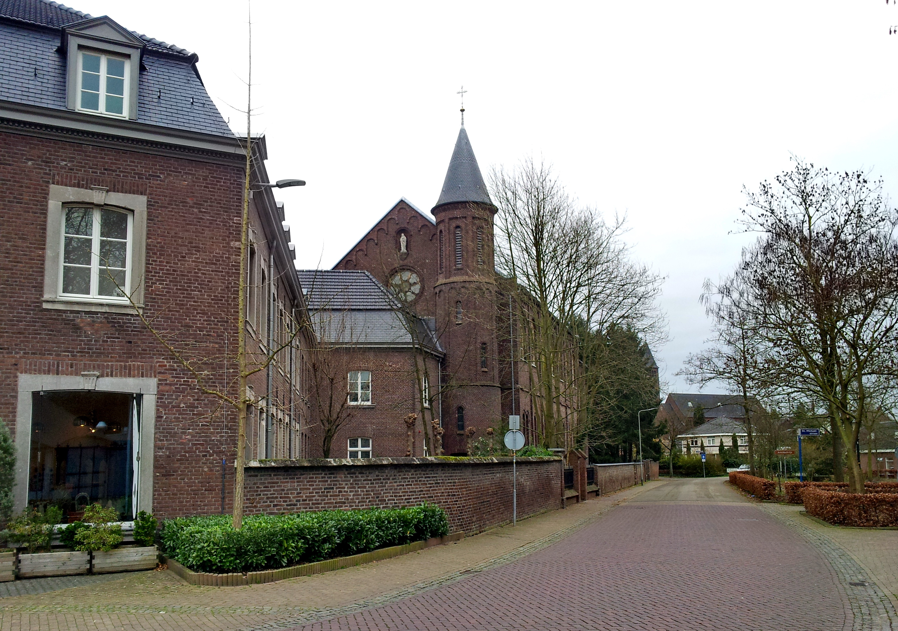 View of Missiehuis Sint-Michaël in Steyl-Tegelen, Limburg, the Netherlands. The monastery in Steyl is the motherhouse of the Society of the Divine Word (Latin: Societas Verbi Divini or SVD) of Roman Catholic missionaries. The left part of the building complex is now home to an ethnographic and taxidermic museum, the Missiemuseum Steyl.